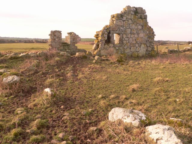 The ruin of Bodychen, Llandrygan, Anglesey. Bodychen is the remains of an old manor house. Just over 400 years ago Rhys Ap Llewelyn the squire of Bodychen who lived here, took an army of Anglesey men and fought side by side with Henry Tudor on Bosworth Field.